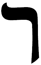 Hebrew letter resh